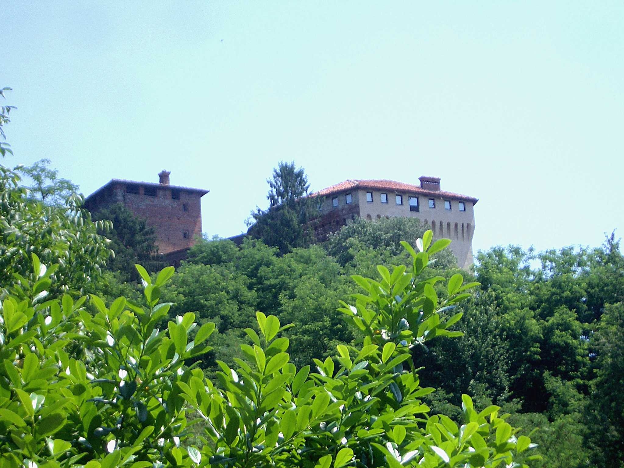 The medieval castle, Roppolo, Province of Biella, Italy